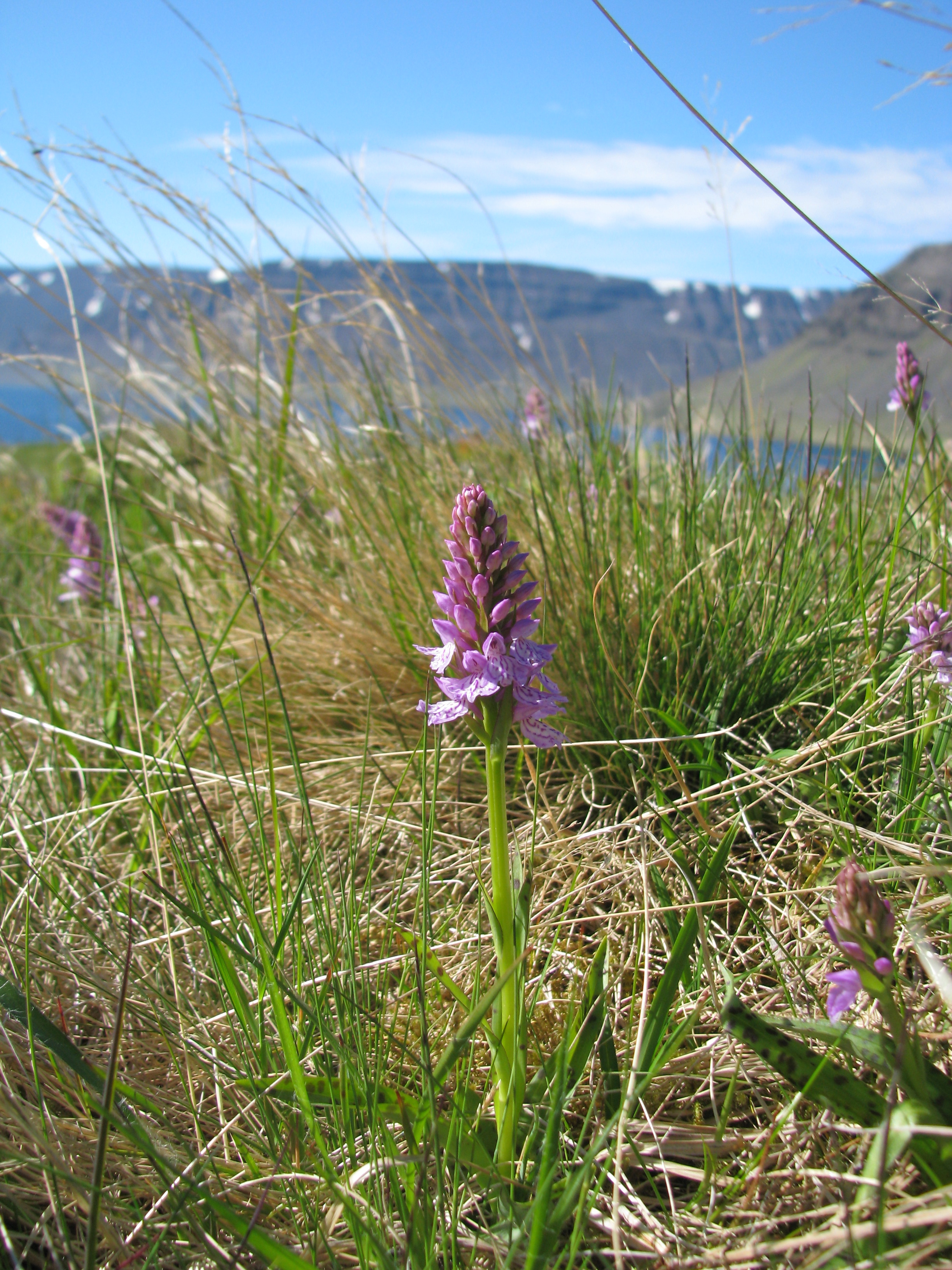 An orchid neat Dynjandisvogur, part of Arnarfjörður